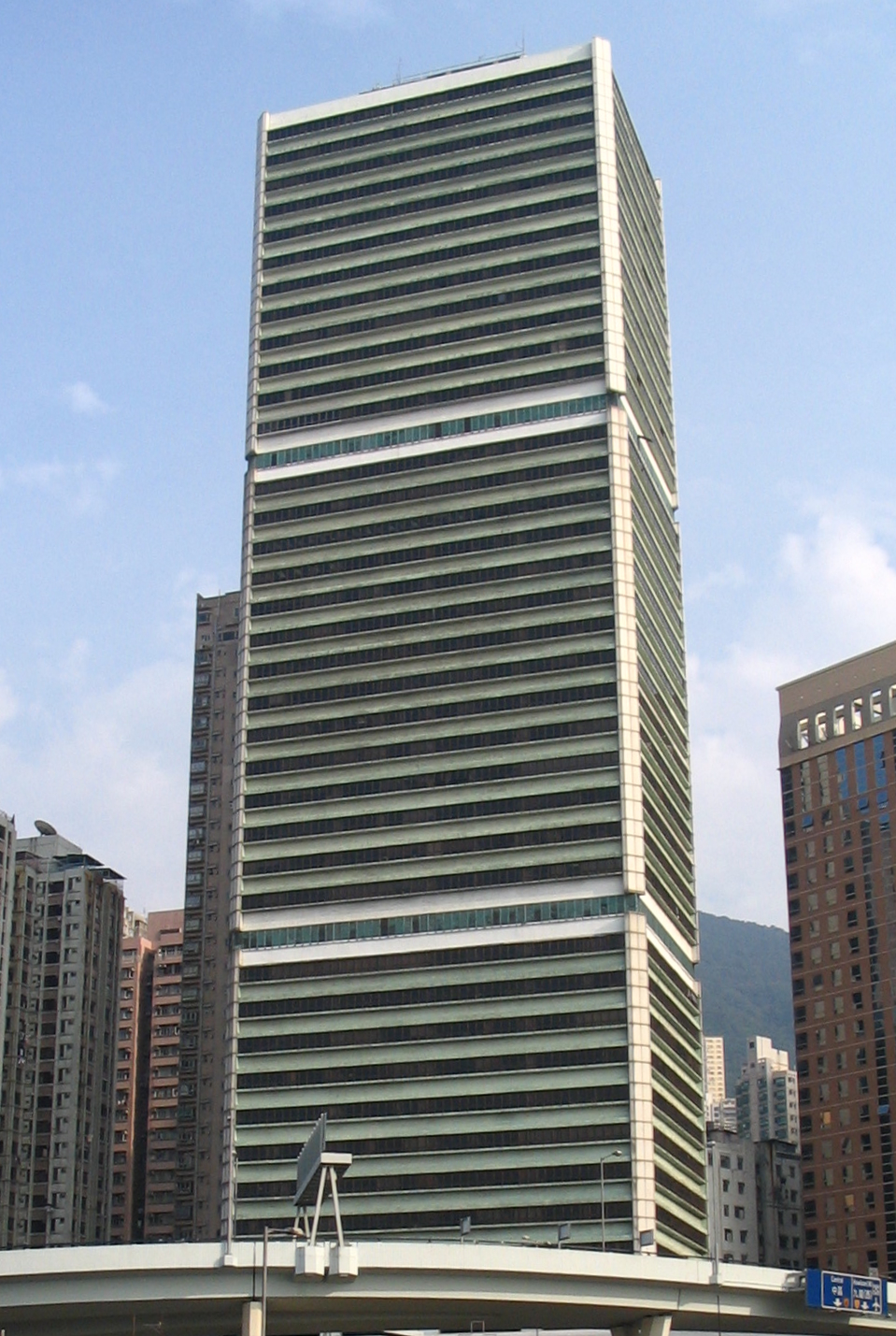 Photo of Hong Kong Plaza